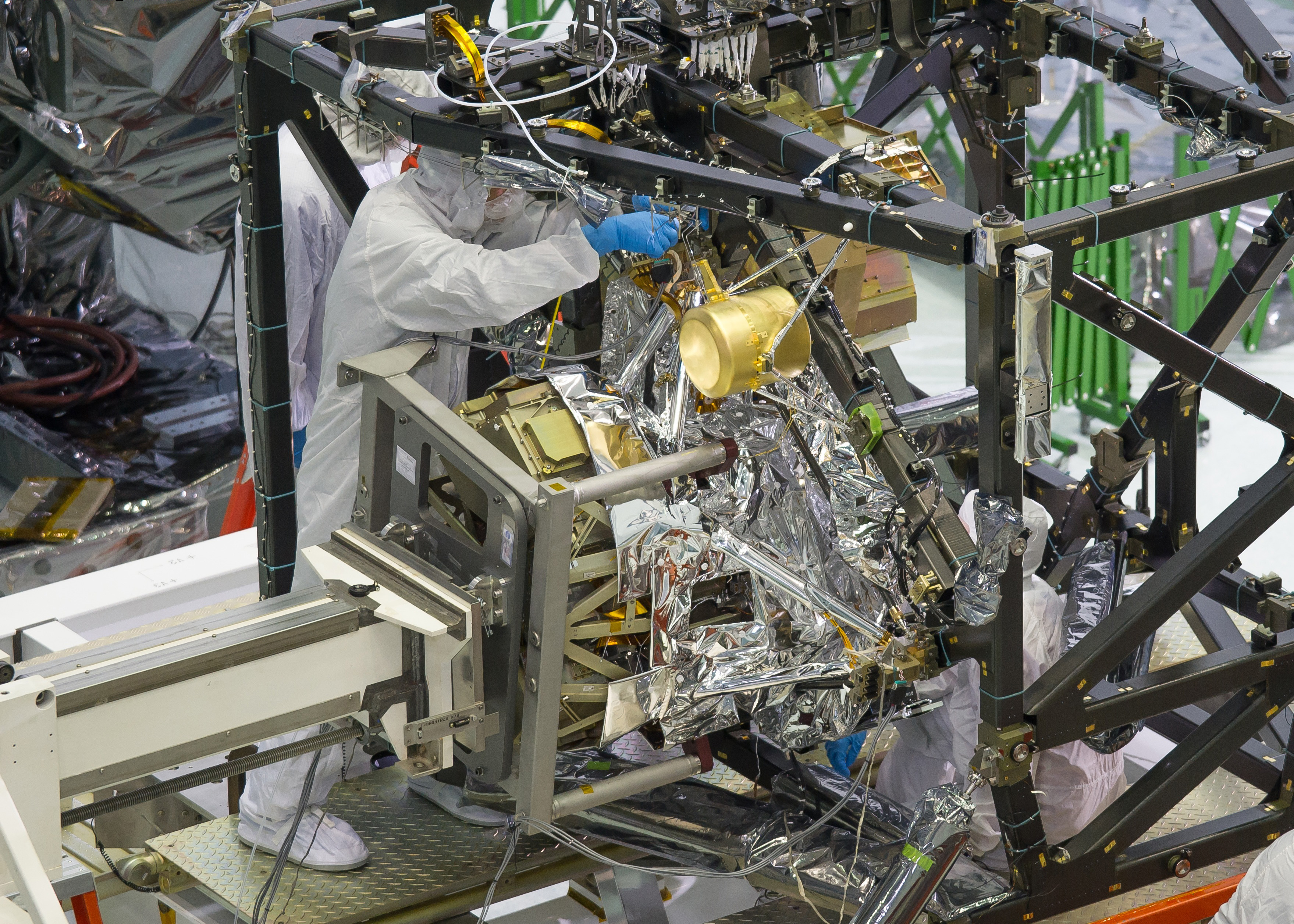 A technician is installing the bolts that will hold the MIRI, or Mid-Infrared Instrument, to the composite Integrated Science Instrument Module (ISIM) structure, or the black frame. The MIRI is attached to a balance beam, called the Horizontal Integration Tool (HIT), hanging from a precision overhead crane. That's the same tool that Hubble engineers used to prepare hardware for its servicing missions. Photo Credit: NASA/Chris Gunn; Text Credit: NASA/Laura Betz Engineers worked meticulously to implant the James Webb Space Telescope's Mid-Infrared Instrument into the ISIM, or Integrated Science Instrument Module, in the cleanroom at NASA's Goddard Space Flight Center in Greenbelt, Md. As the successor to NASA's Hubble Space Telescope, the Webb telescope will be the most powerful space telescope ever built. It will observe the most distant objects in the universe, provide images of the first galaxies formed and see unexplored planets around distant stars. For more information, visit: NASA image use policy. NASA Goddard Space Flight Center enables NASA’s mission through four scientific endeavors: Earth Science, Heliophysics, Solar System Exploration, and Astrophysics. Goddard plays a leading role in NASA’s accomplishments by contributing compelling scientific knowledge to advance the Agency’s mission. Follow us on Twitter Like us on Facebook Find us on Instagram